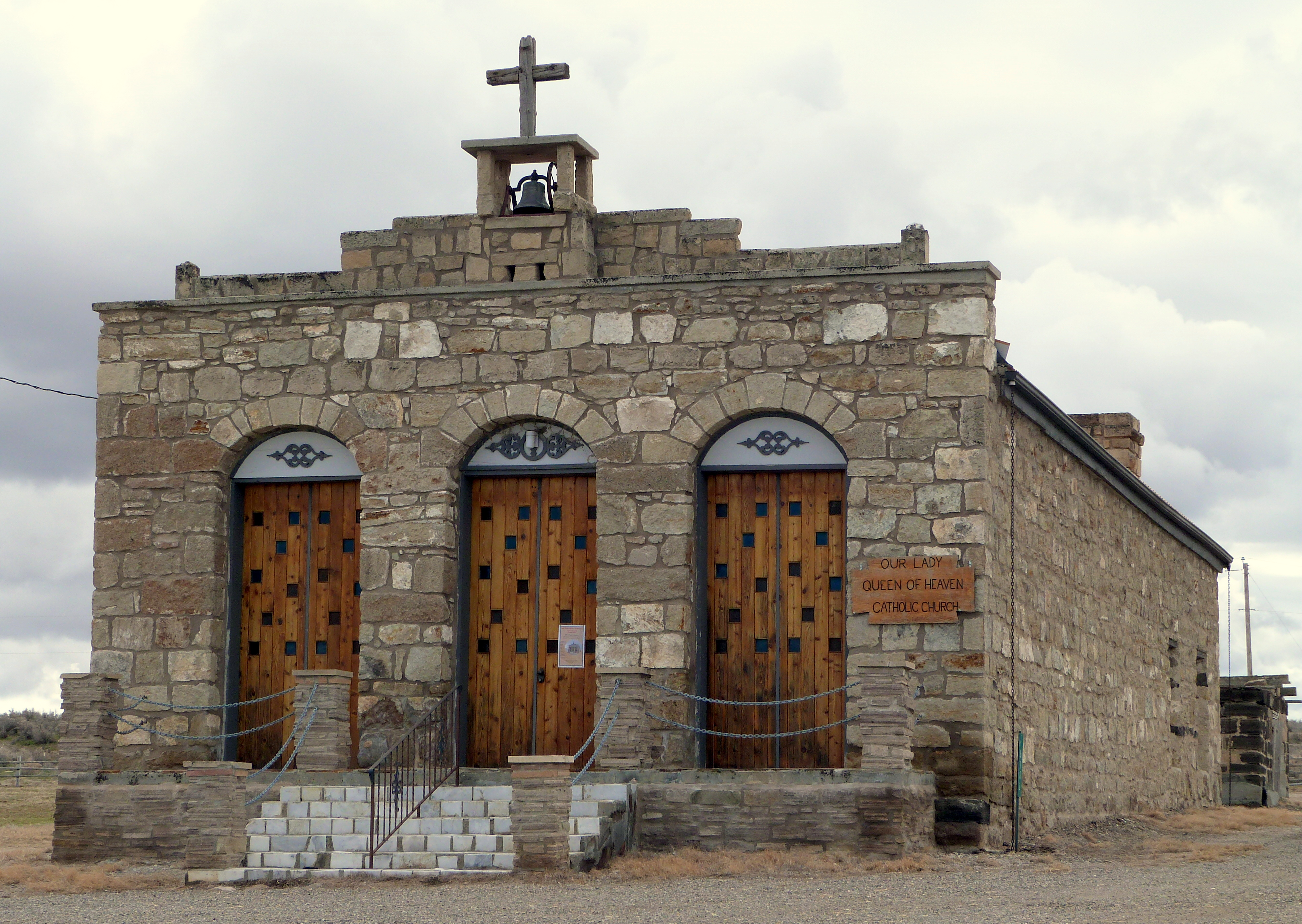 The historic Our Lady (built ca. 1883), in Oreana, Idaho, United States, is listed on the US National Register of Historic Places.